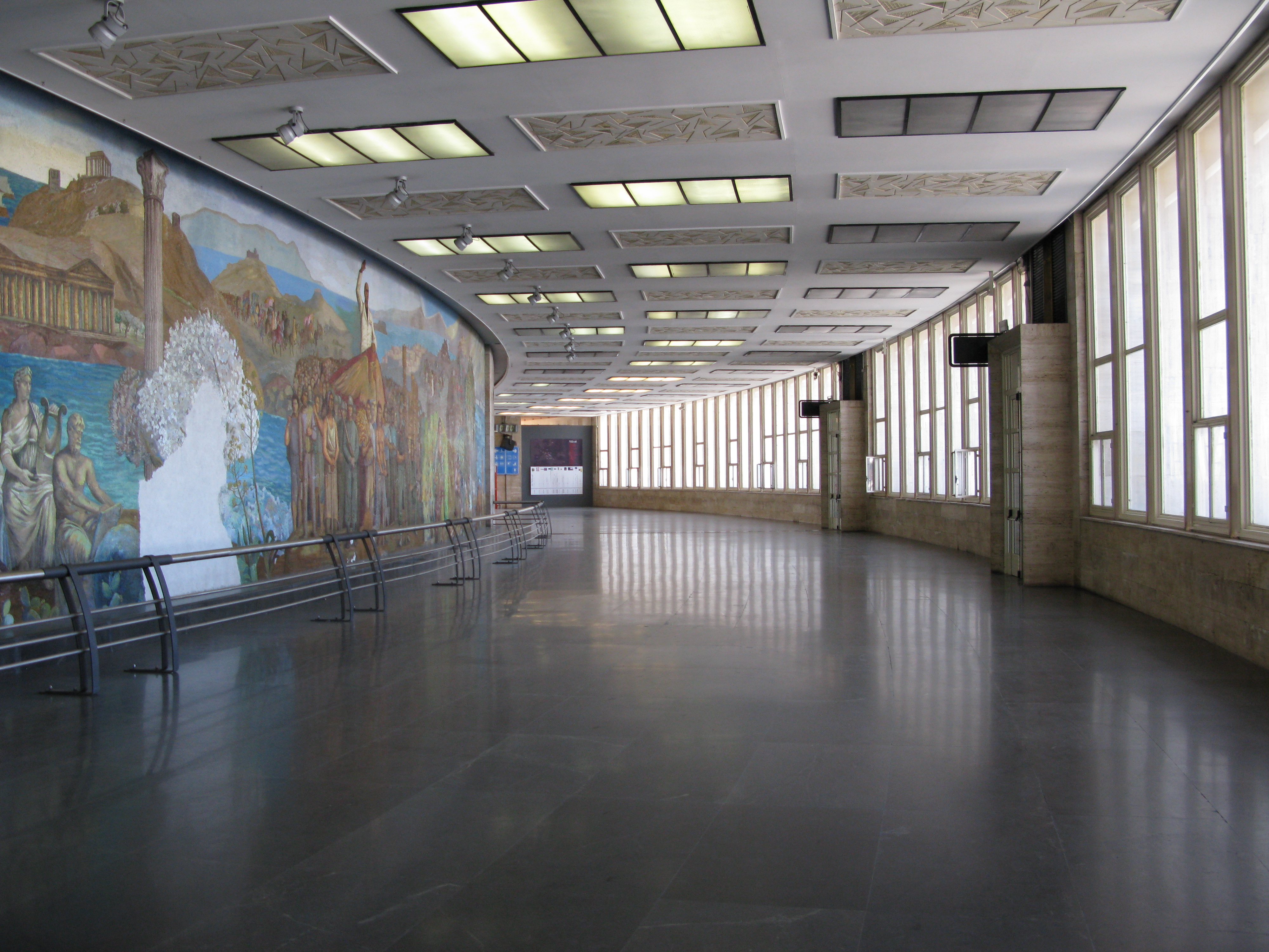 Salone dei Mosaici - Messina Marittima train station